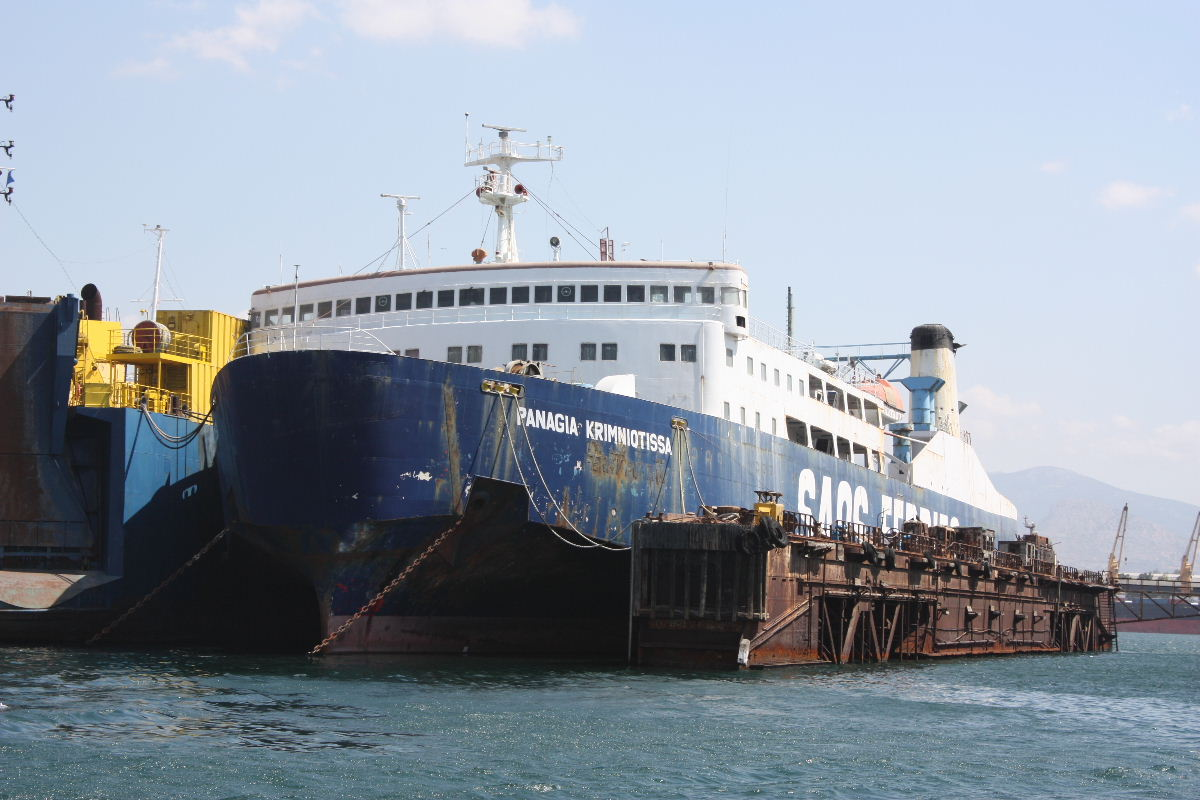 The ferry Panagia Krimniotissa in Eleusis on August 16, 2009.